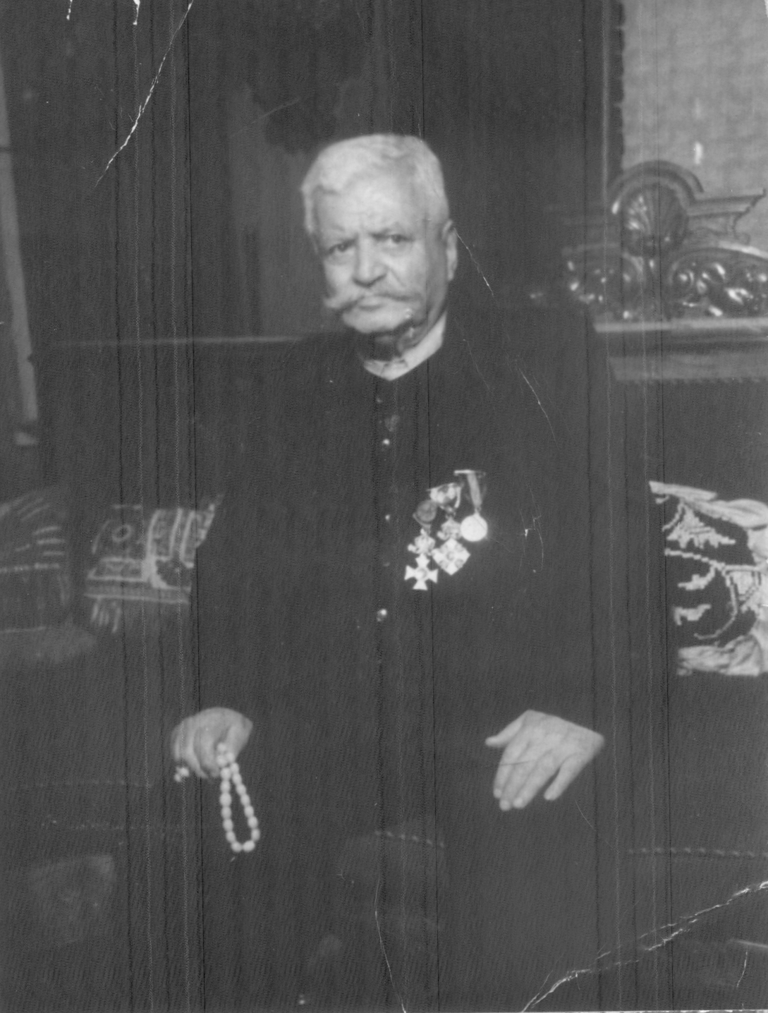 Avram Chalyovski (1854 - 1943)